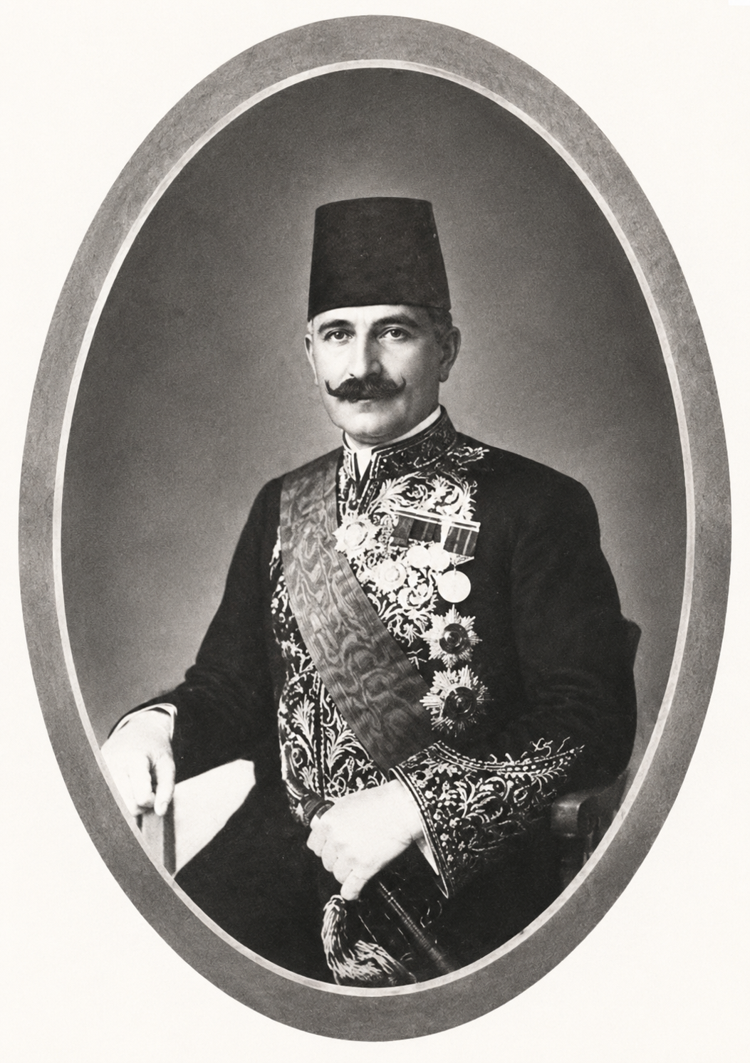 Photograph of ʾIsmāʿīl Ḥaqqi bey, the pre-final Mutasarrif of Mount Lebanon, and the last Wāli of Beirut Vilayet.